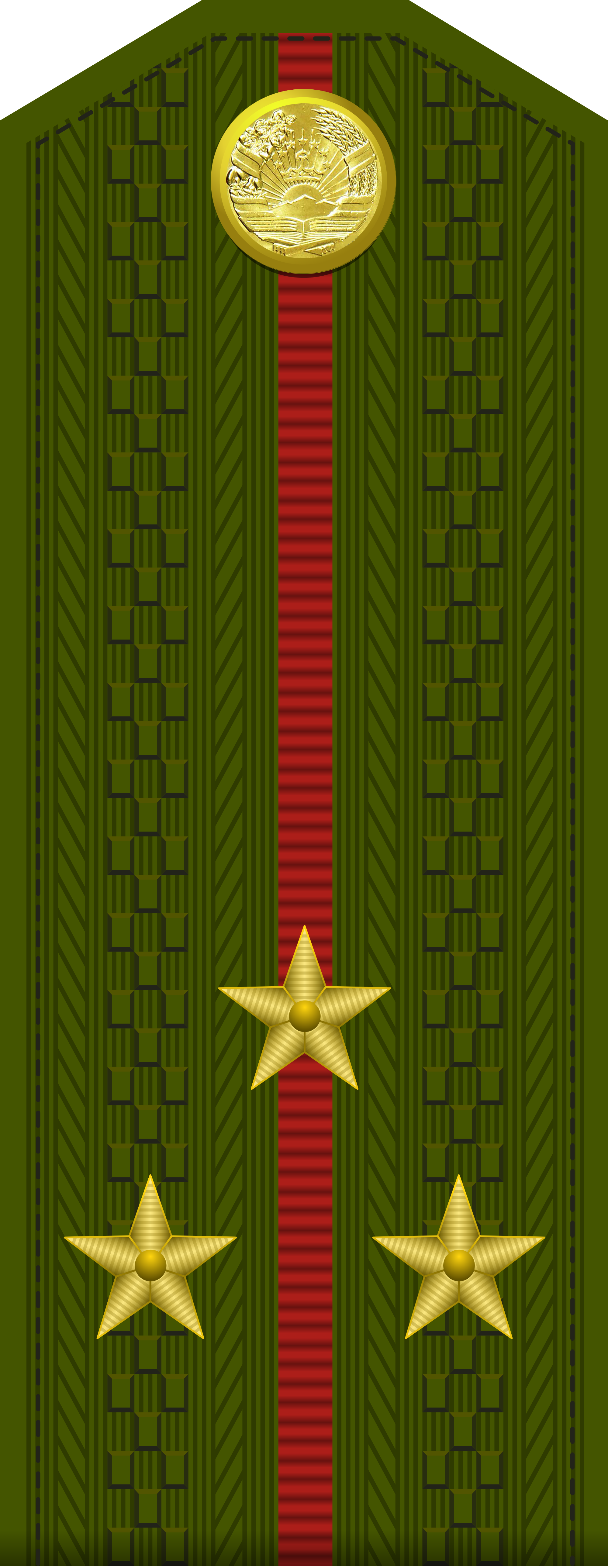 Тоҷикӣ: Rank insignia of Senior Lieutenant for the Tajikistan Army